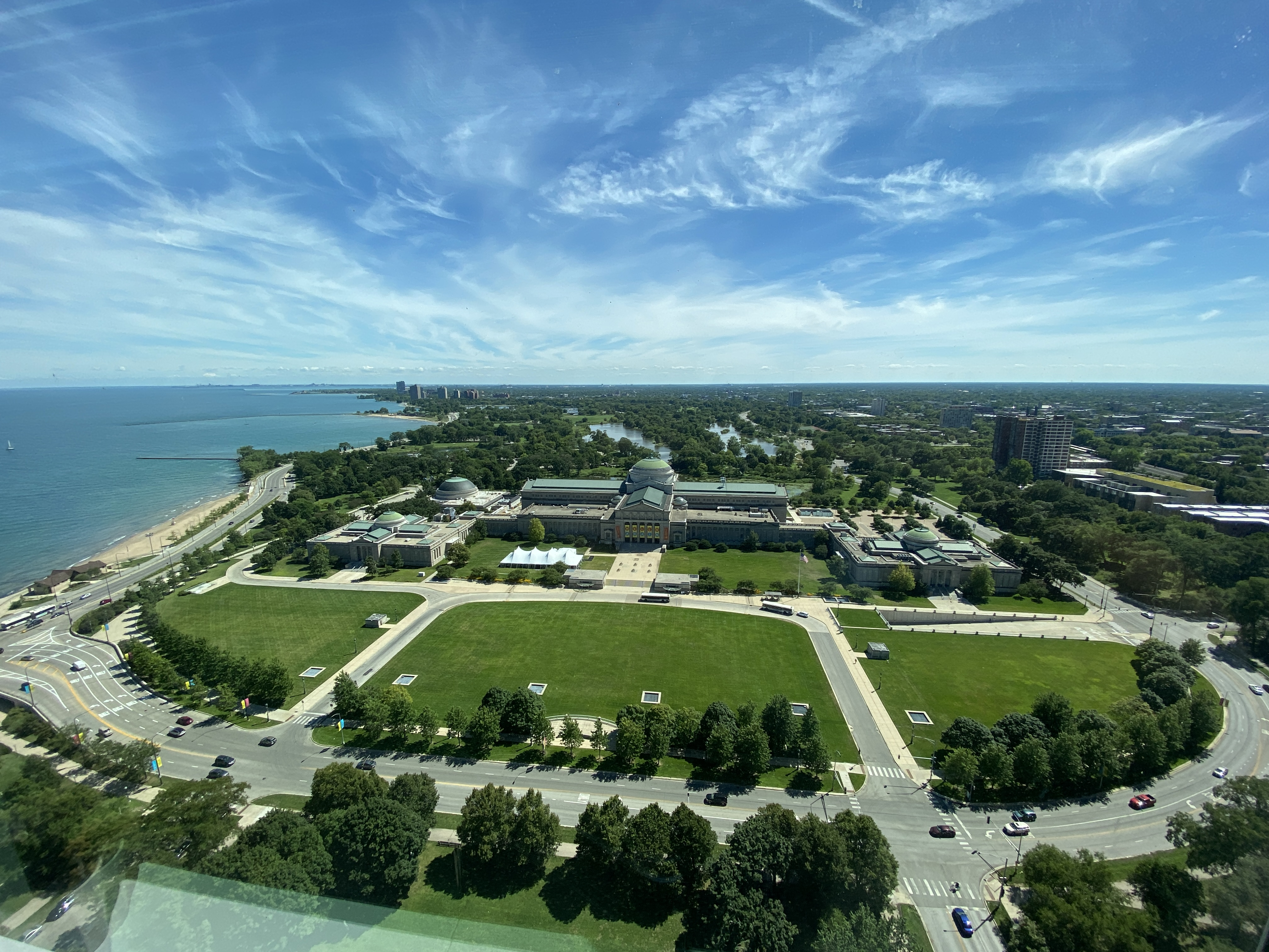 Museum of Science and Industry (Chicago), Lake Shore Drive and Jackson Park (Chicago) from w:1700 East 56th Street